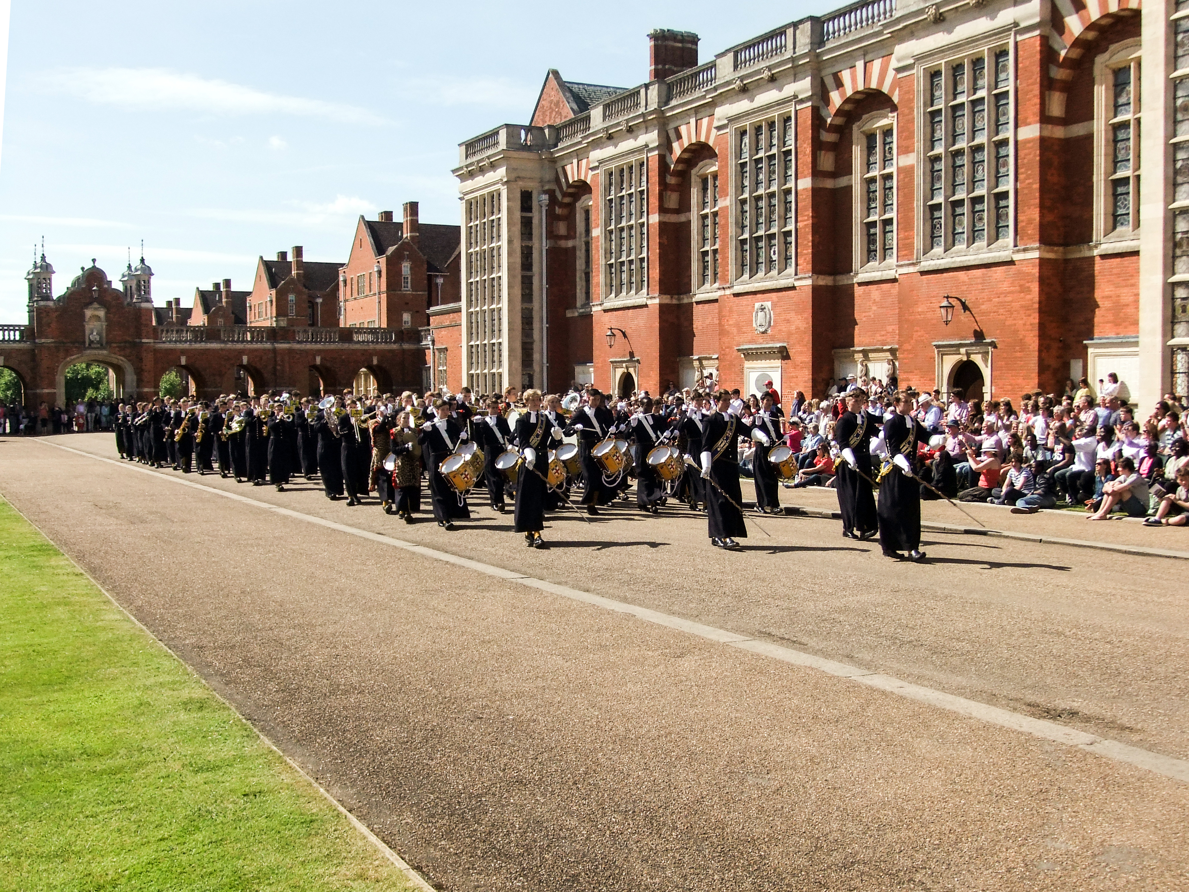 The Christ's Hospital Band march past Dining hall at the end of Beating Retreat whilst playing Sussex by the Sea. 29th June 2013